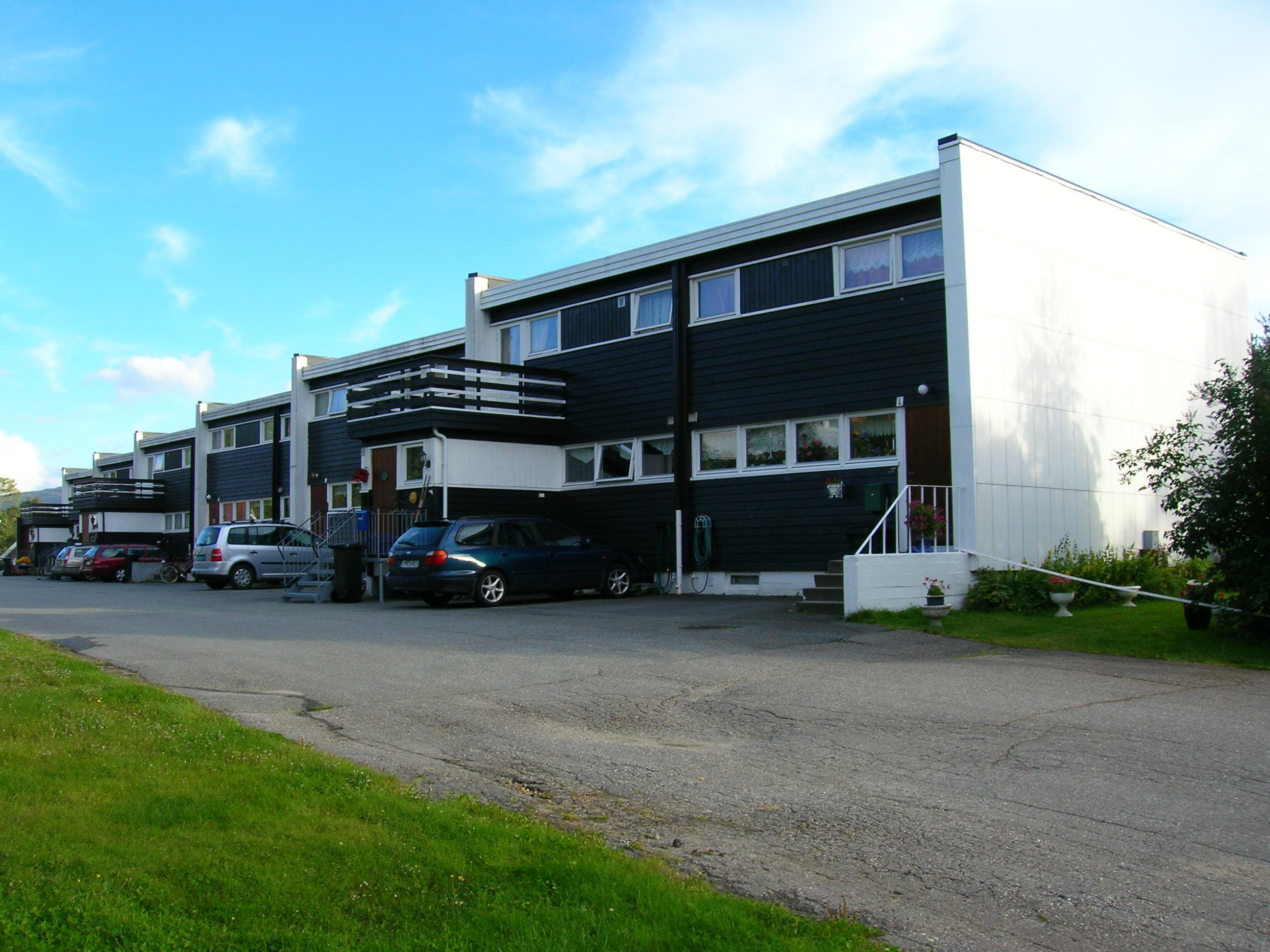 Elgveien housing cooperative on Selfors, north of Mo i Rana, Rana municipality, county of Nordland, Norway, Photo 4 September, 2007 with a Nikon Coolpix 5600 5,1 Megapixel camera.